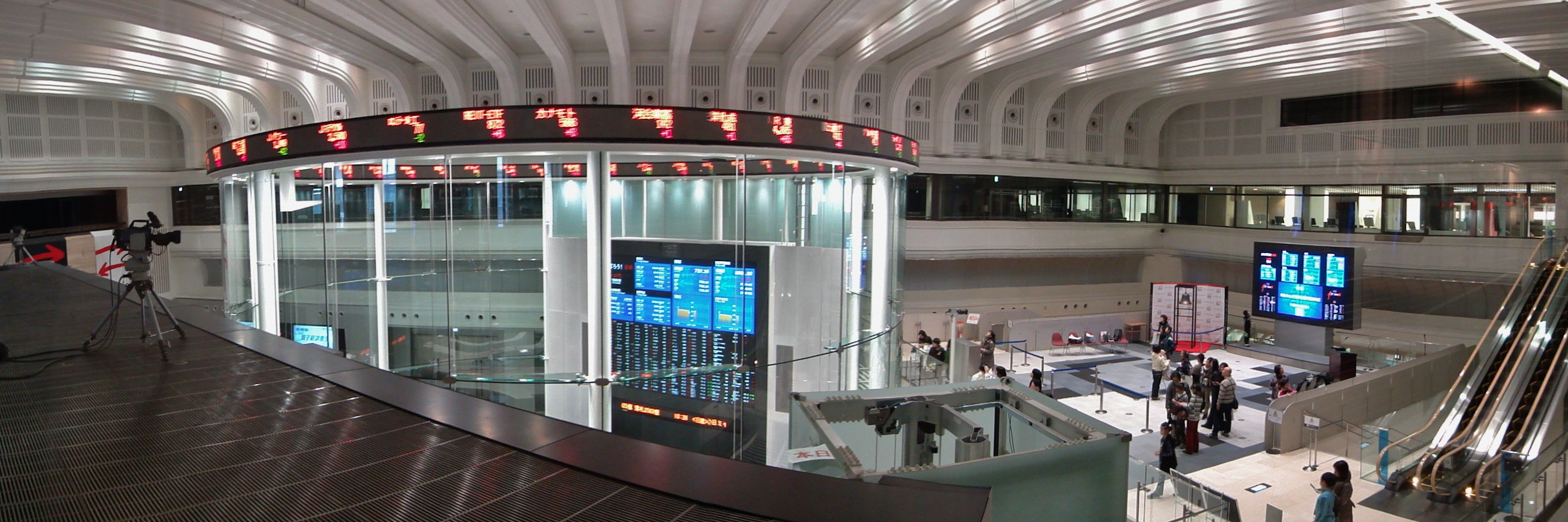 Tokyo Stock Exchange tradingroom